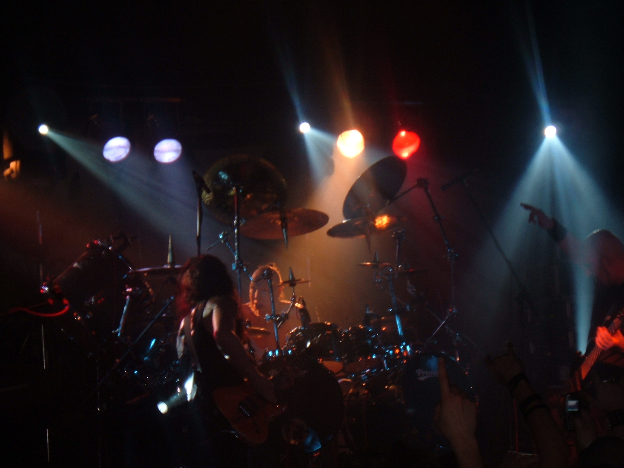 Picture taken by myself with my camera. Live in Milan, Italy (at the Rainbow). 13 April 2006. Members: Peter Wagner - vocals, bass Victor Smolski - guitar, Keyboard Mike Terrana - drums